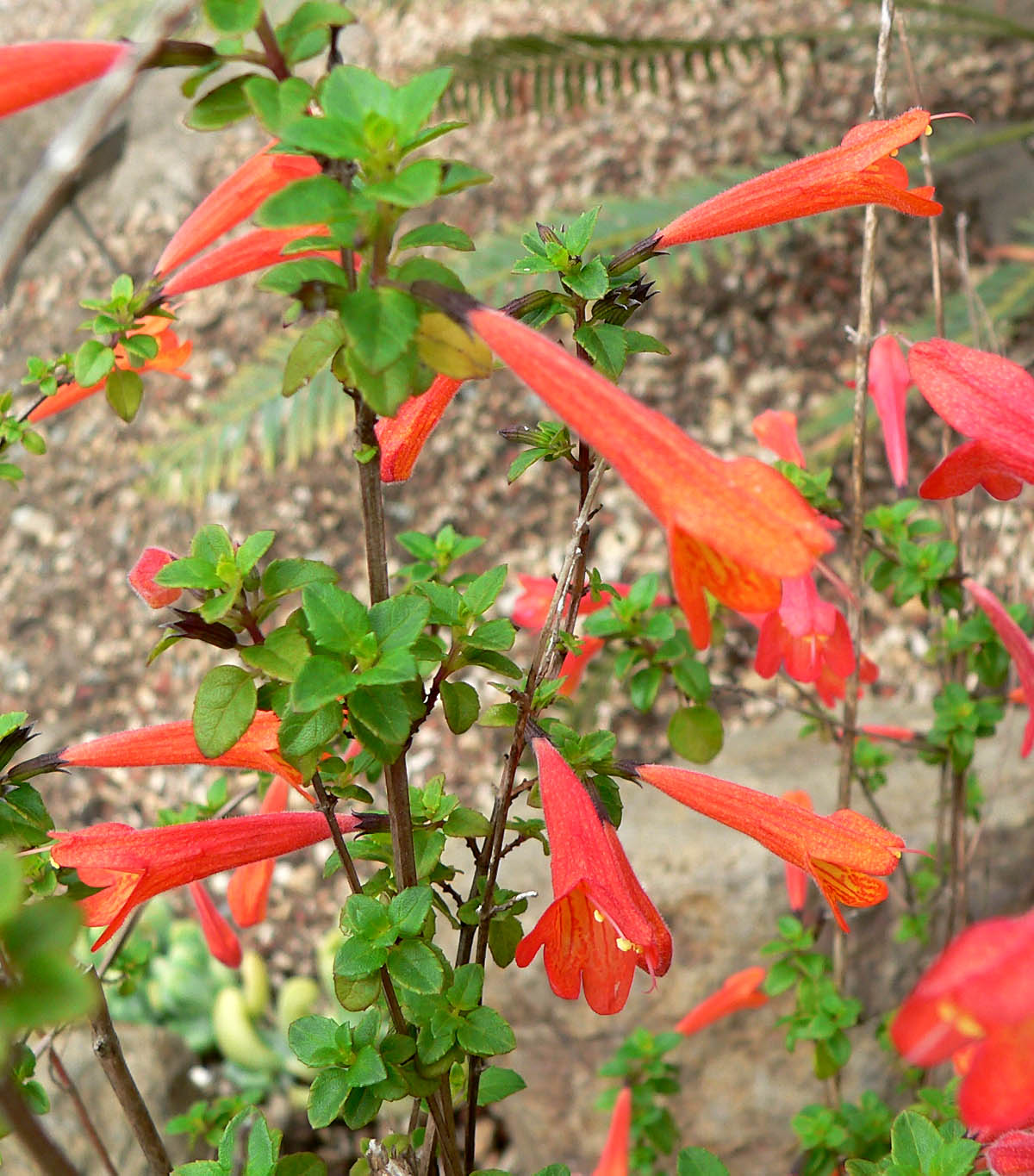 Photo of Satureja mexicana at the University of California Botanical Garden